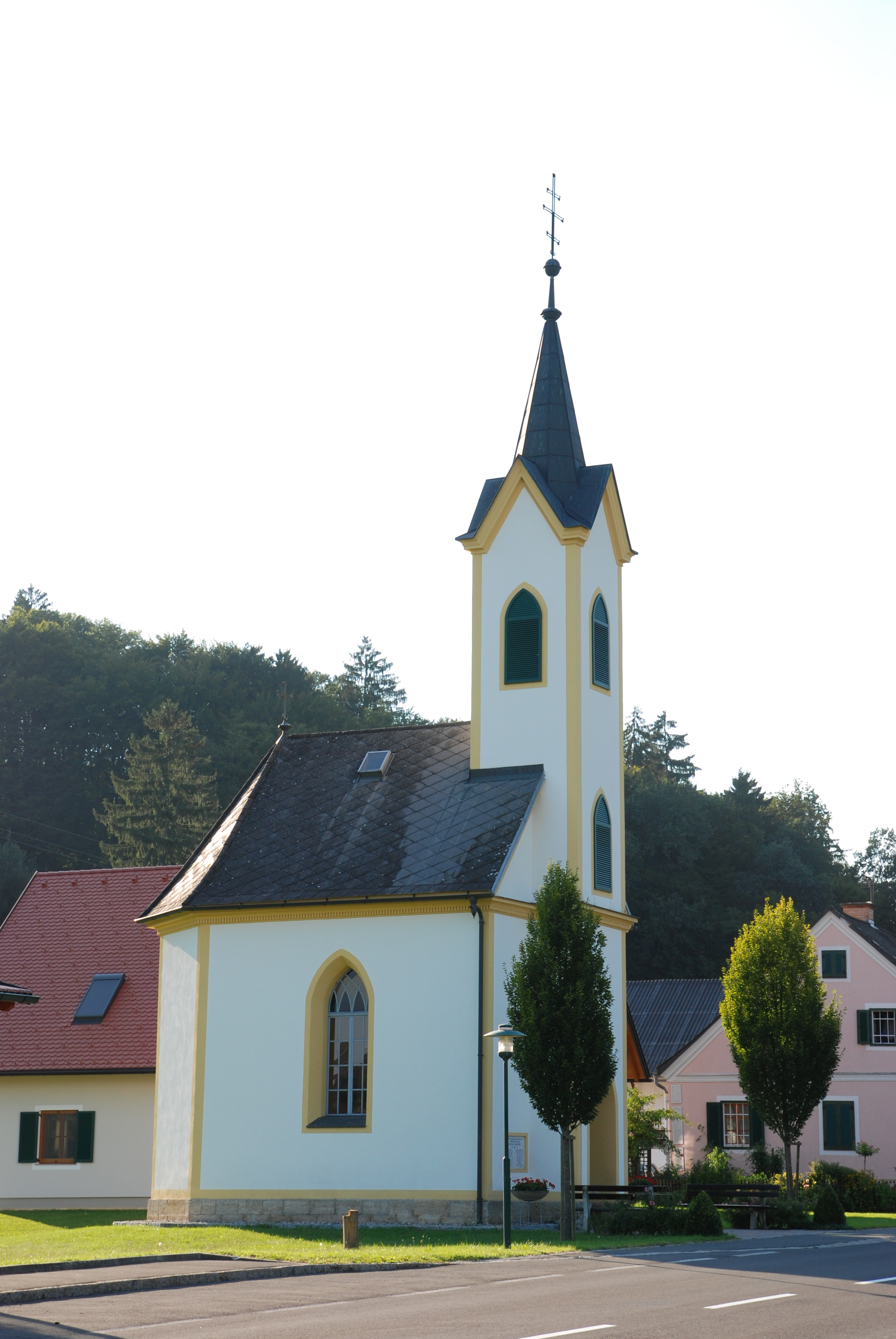 Kapelle Maierdorf